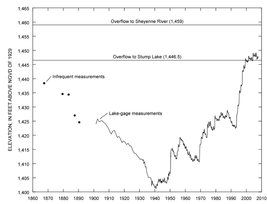 Historical elevations of Devils Lake, North Dakota, 1860-2008.